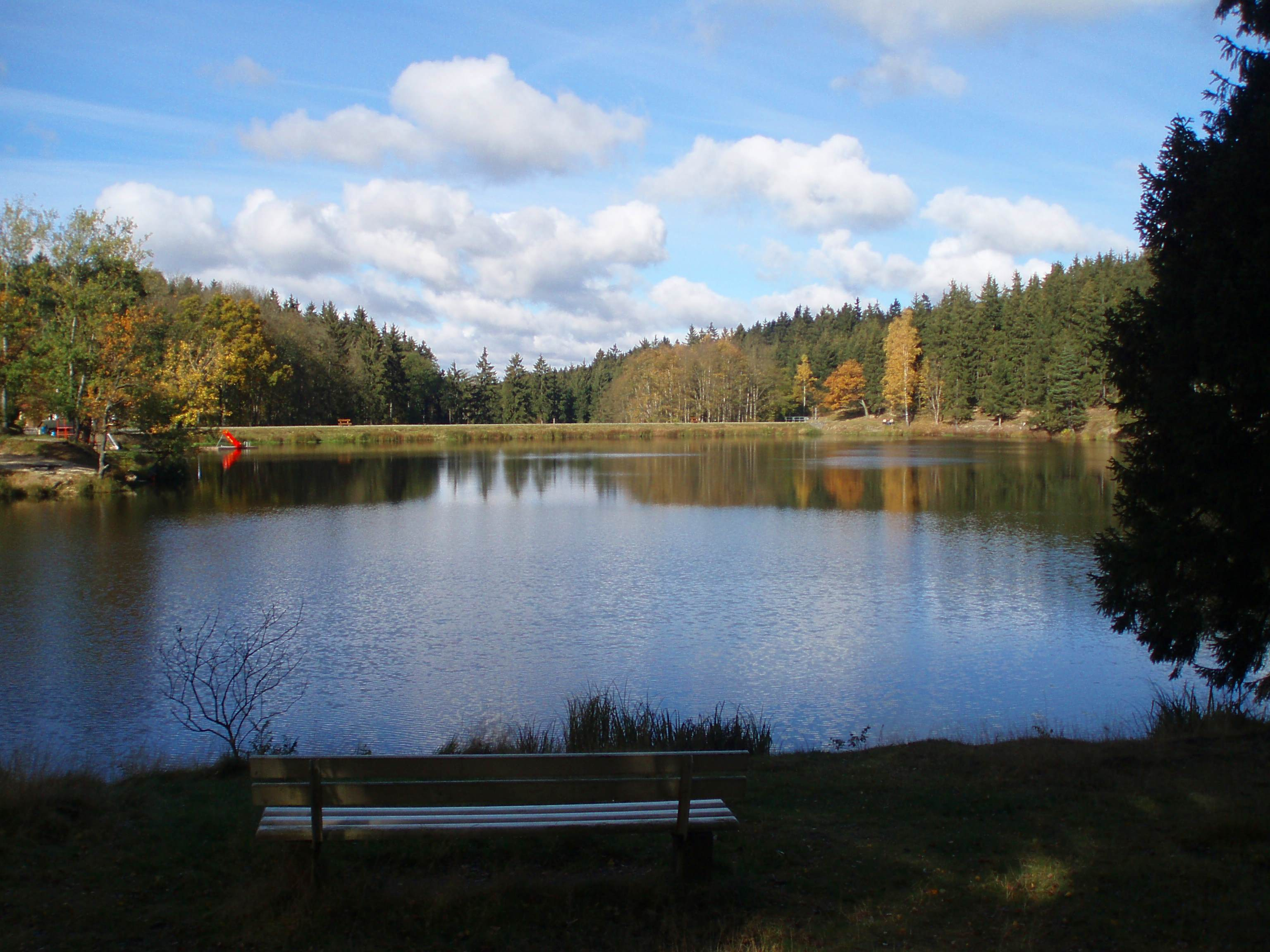 Birnbaumteich Dam reservoir, Saxony-Anhalt, Germany